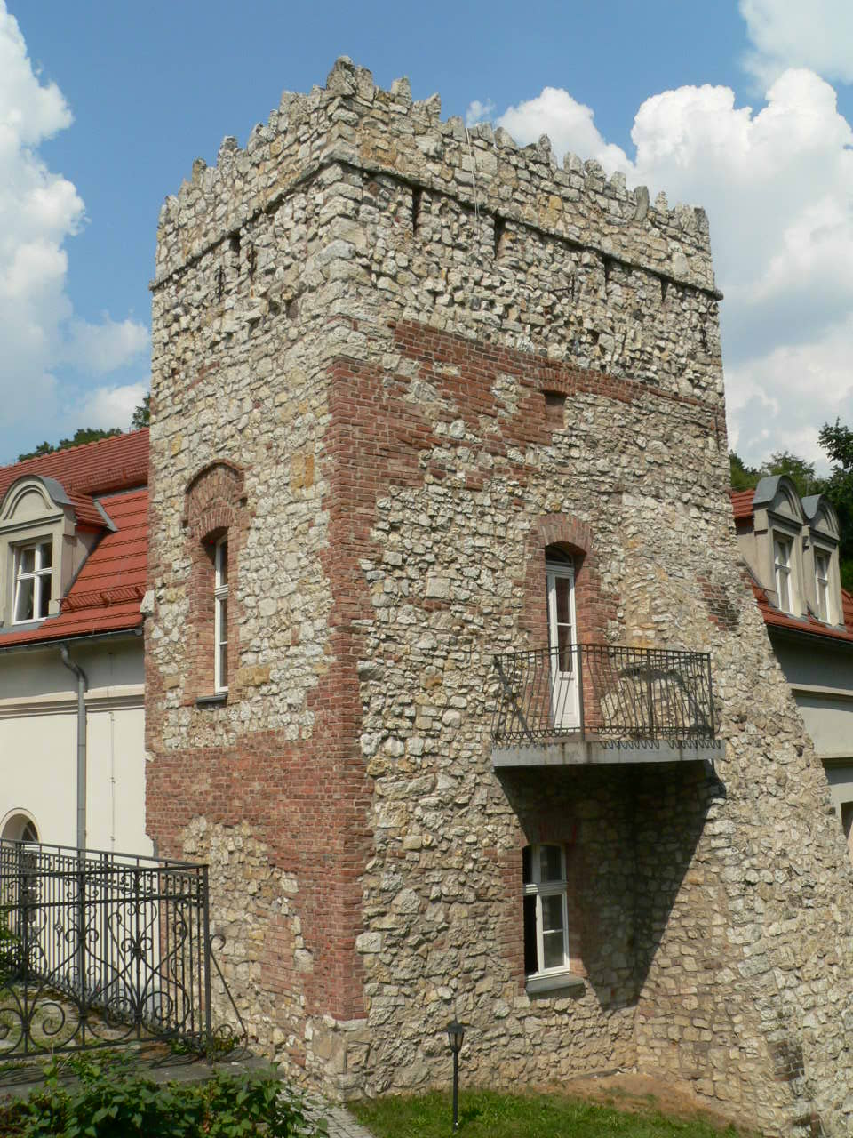 Palace in Kamieniec (Silesian Voivodeship). Mouse Tower.